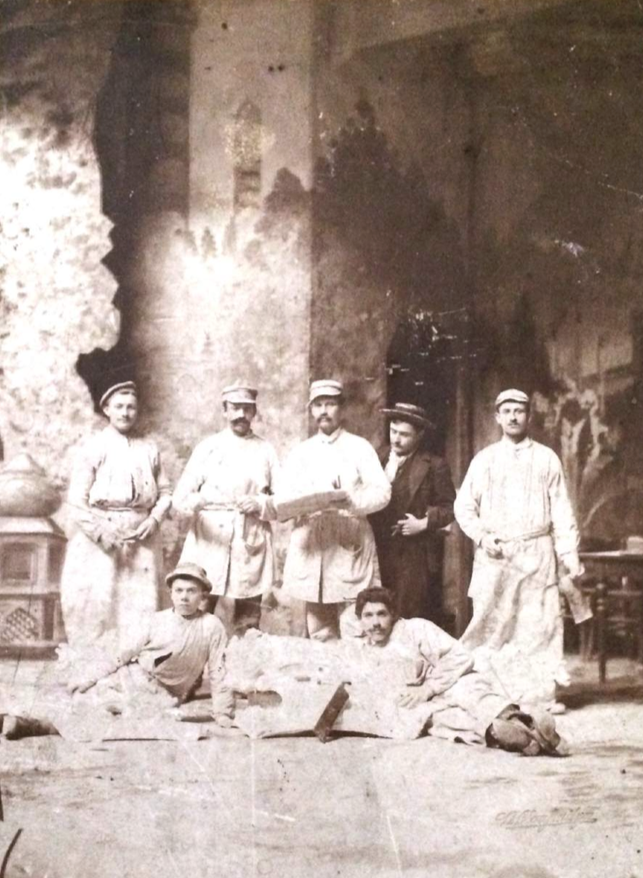 Theater Orpheum Darmstadt during construction